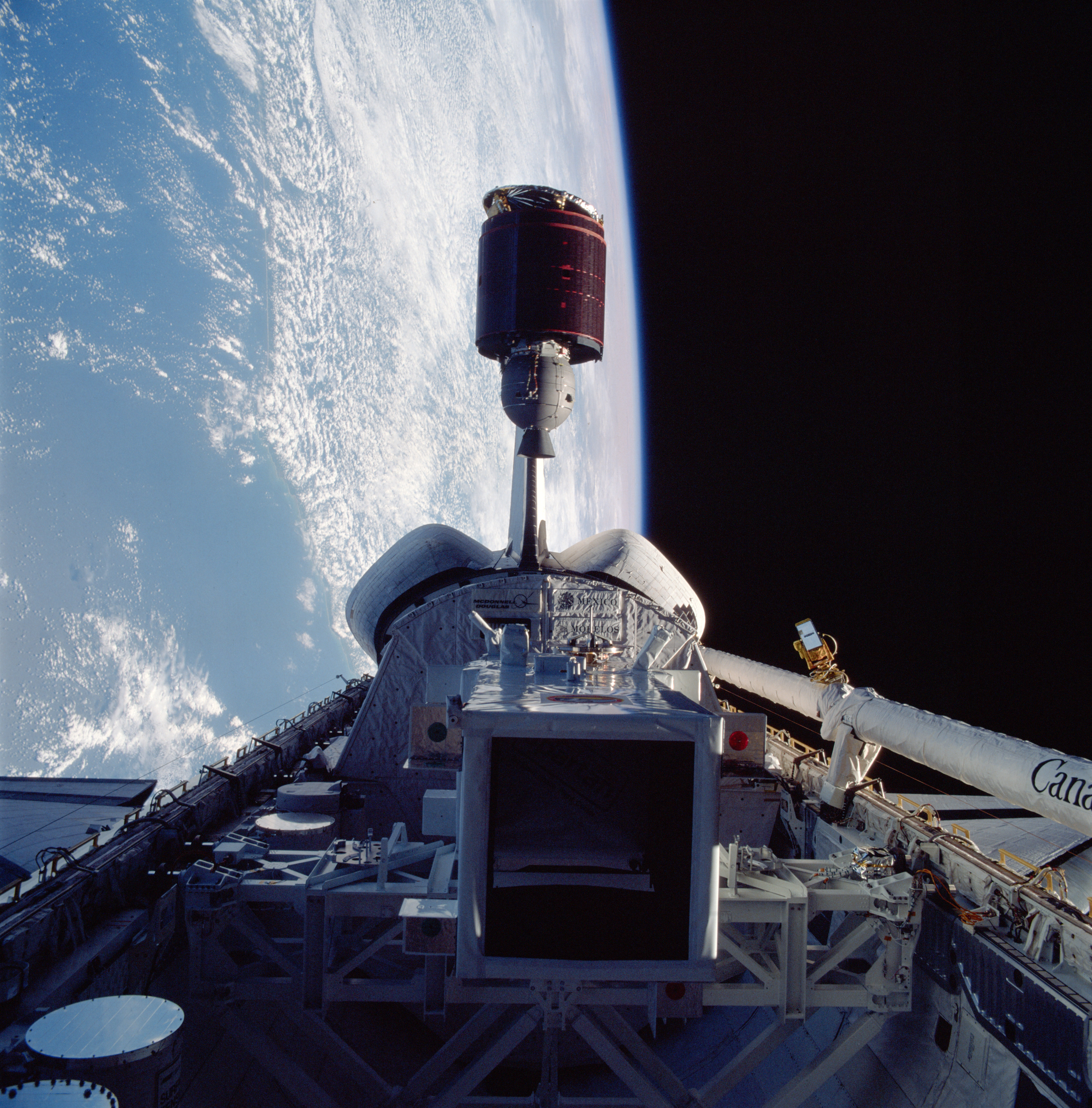 Telstar 3-D communications satellite deploying from Discovery's payload bay. Cloudy Earth's surface can be seen to the left of the frame.